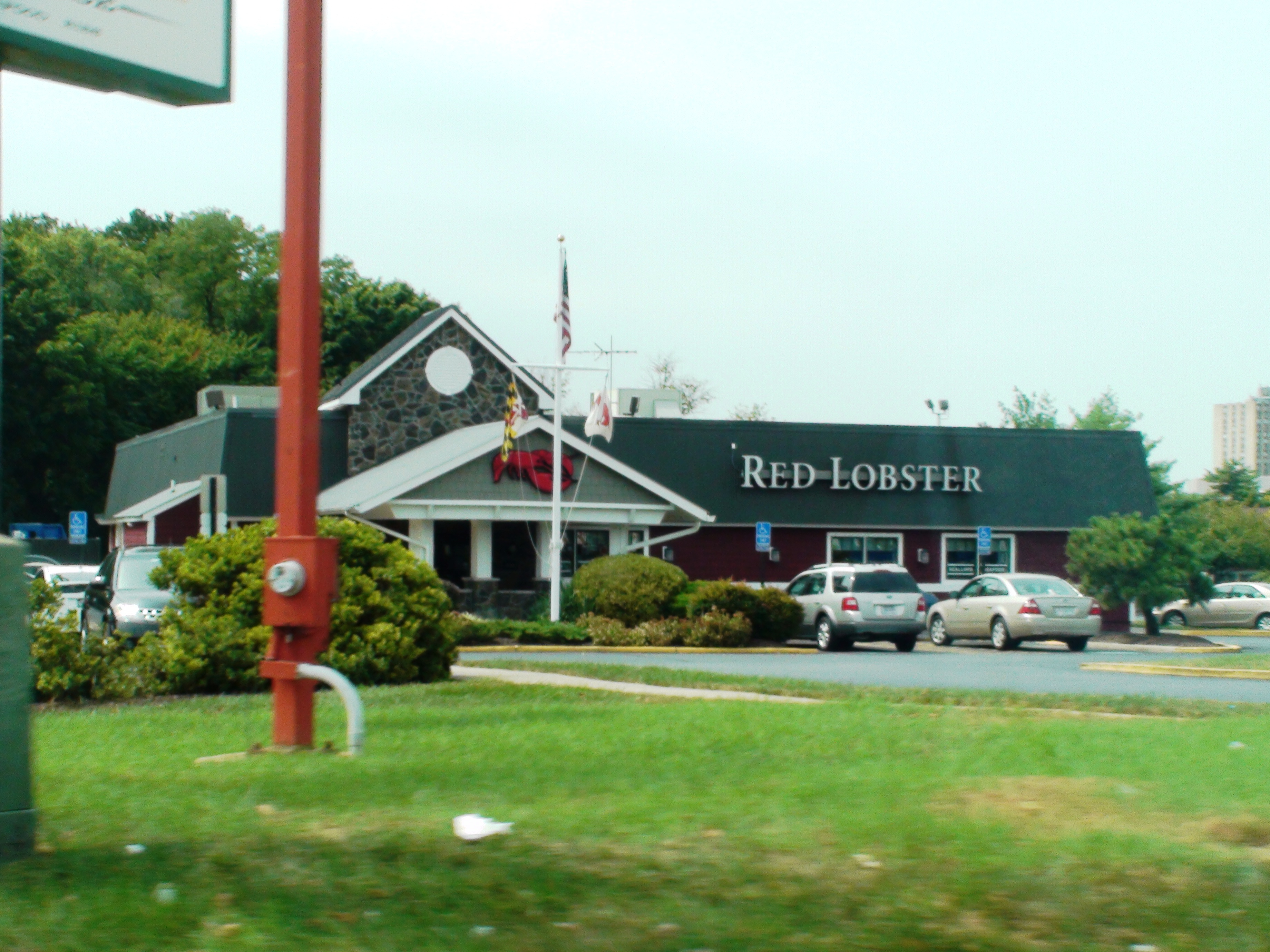 A Red Lobster seafood restaurant at 1:20 p.m. (EDT) on September 9, 2013, located at 15700 Shady Grove Road, in Gaithersburg, Montgomery County, Maryland. Photograph taken on September 9, 2013, in Gaithersburg, Maryland, with a Sony HDR-SR11 camcorder, by Illegitimate Barrister.